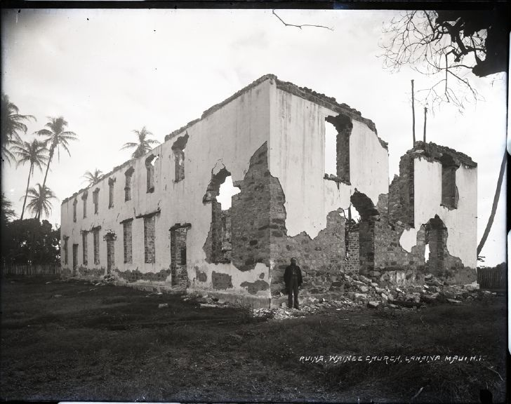 Ruins of Wainee Church, Lahaina